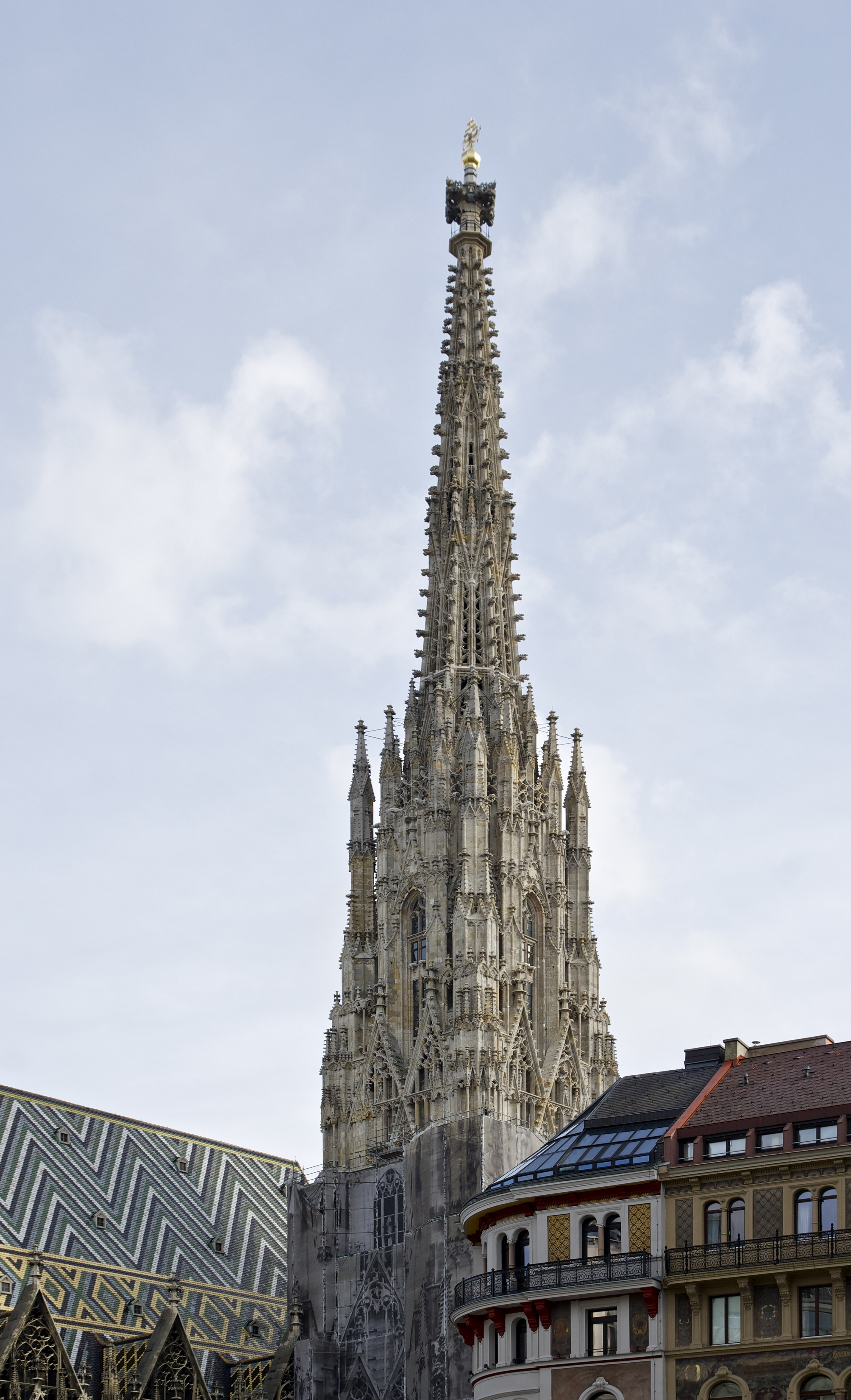 View of the spire (named "Steffl") of the Cathedral St. Stephen of Vienna, Austria.